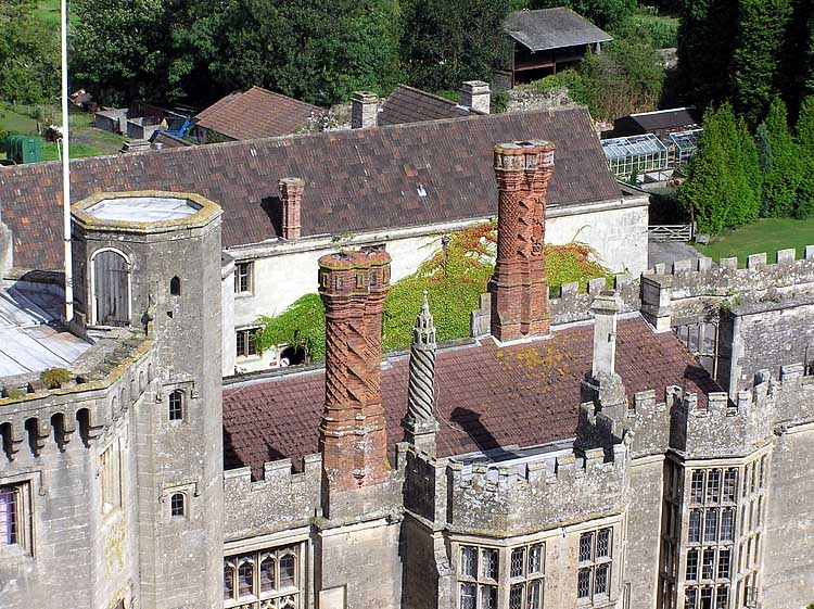 Detail of Castle chimneys, dated 1514, Thornbury, near Bristol, England. Taken by Adrian Pingstone in September 2004 and released to the public domain.